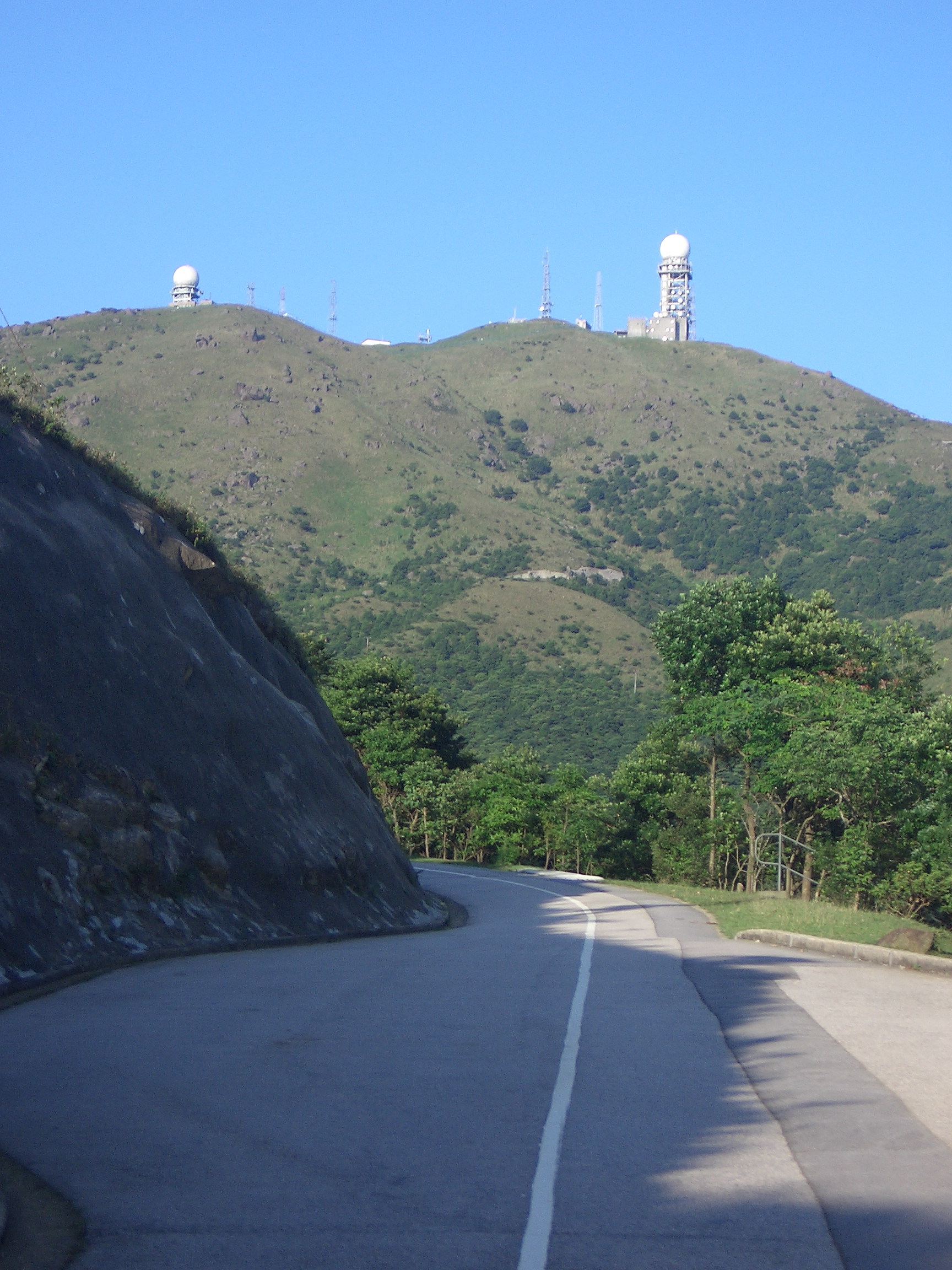 View of Tai Mo Shan peak in Hong Kong from the road of the same name. At the top, one can see telecommunication towers and one of the weather radars of Hong Kong.